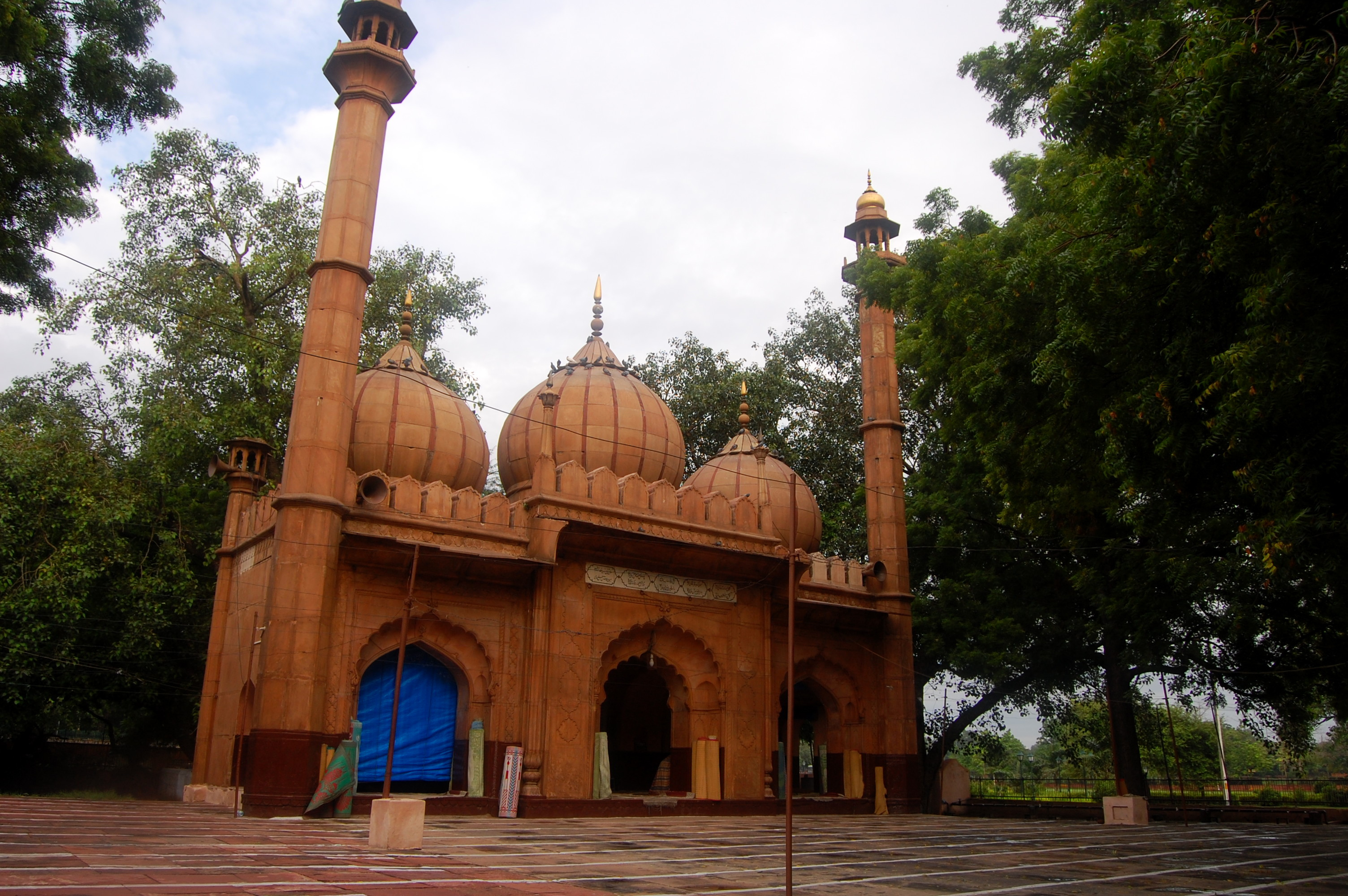 Sunehri Masjid, Delhi. Located outside the southwestern corner of Delhi Gate of Old Delhi, opposite the Netaji Subhash Park stands the Sunehri Masjid, not to confuse with Sunehri Masjid of Chandni Chowk, as seen here: File:Sunehri Masjid, Chandni Chowk, Delhi.jpg.